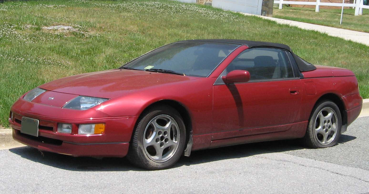 Nissan 300ZX photographed in USA.